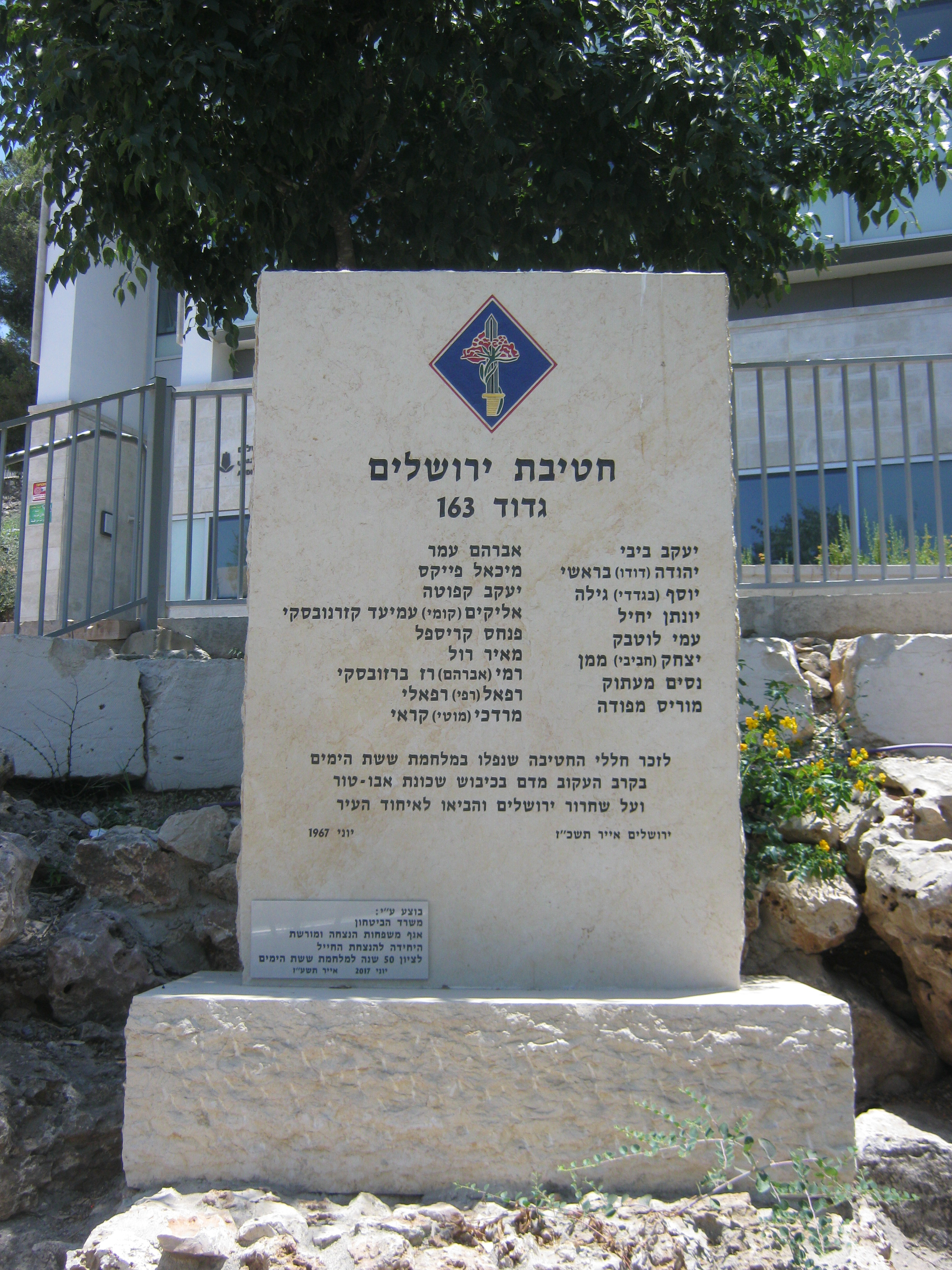 163th Battalion Memorial at Hamefaked st., Jerusalem